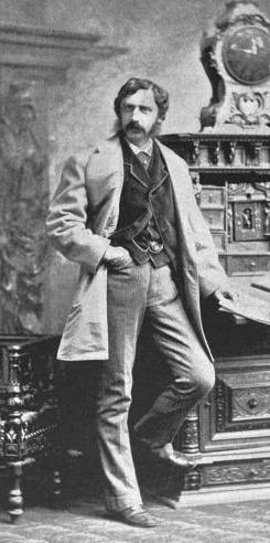 American writer Bret Harte in 1871. From Human Documents: Portraits and Biographies of Eminent Men. New York: S. S. McClure, Limited, 1895: p. 168